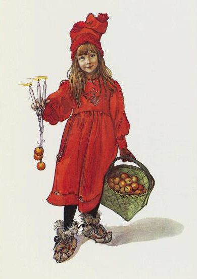 title page for the Christmas edition of "Idun", 1901